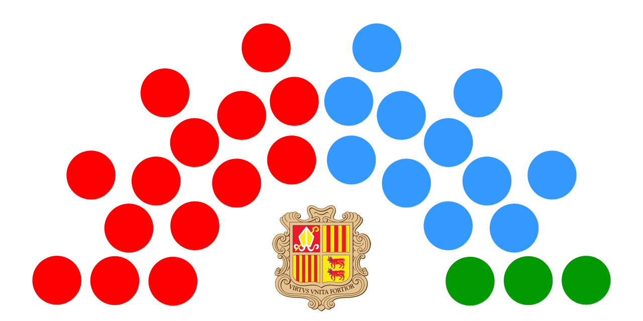 Structure Diagram of the 2009 General Council of Andorra